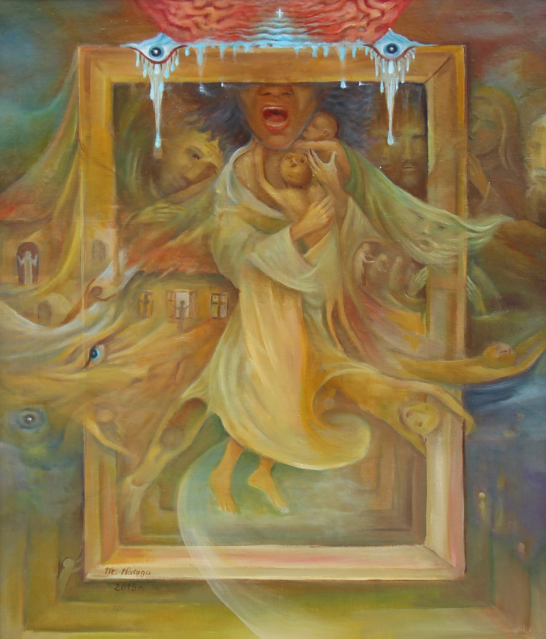 Władysław Wałęga painting 02